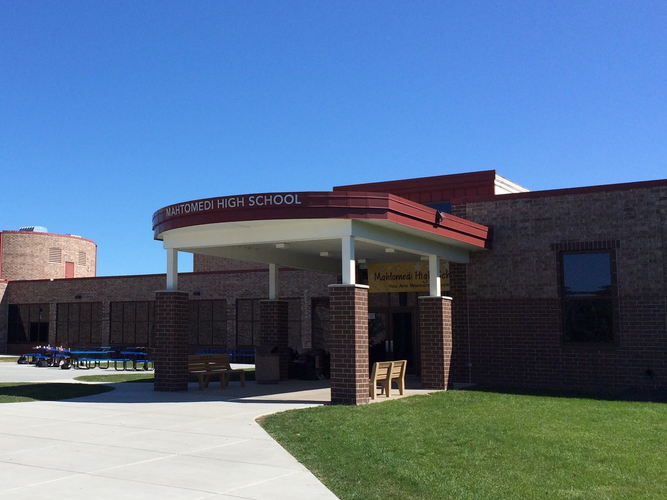 The words "Mahtomedi High School" are on the front of an overhang coming off the front of a brick building